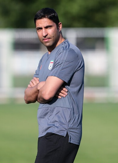 Vahid Hashemian at Iranian national team training